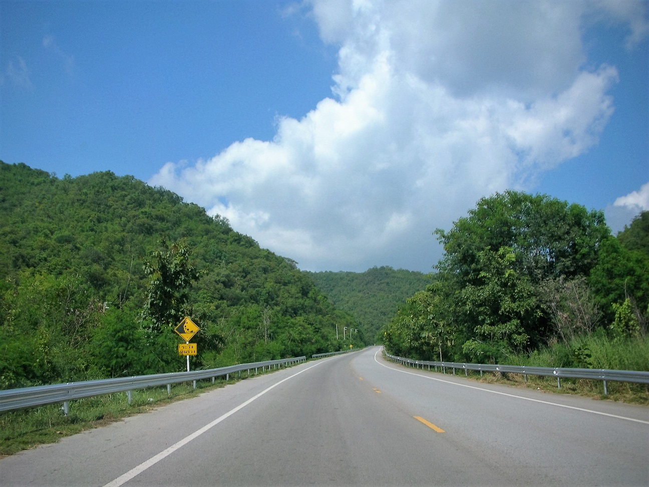 Ban Kao subdistrict; road to Phu Nam Ron